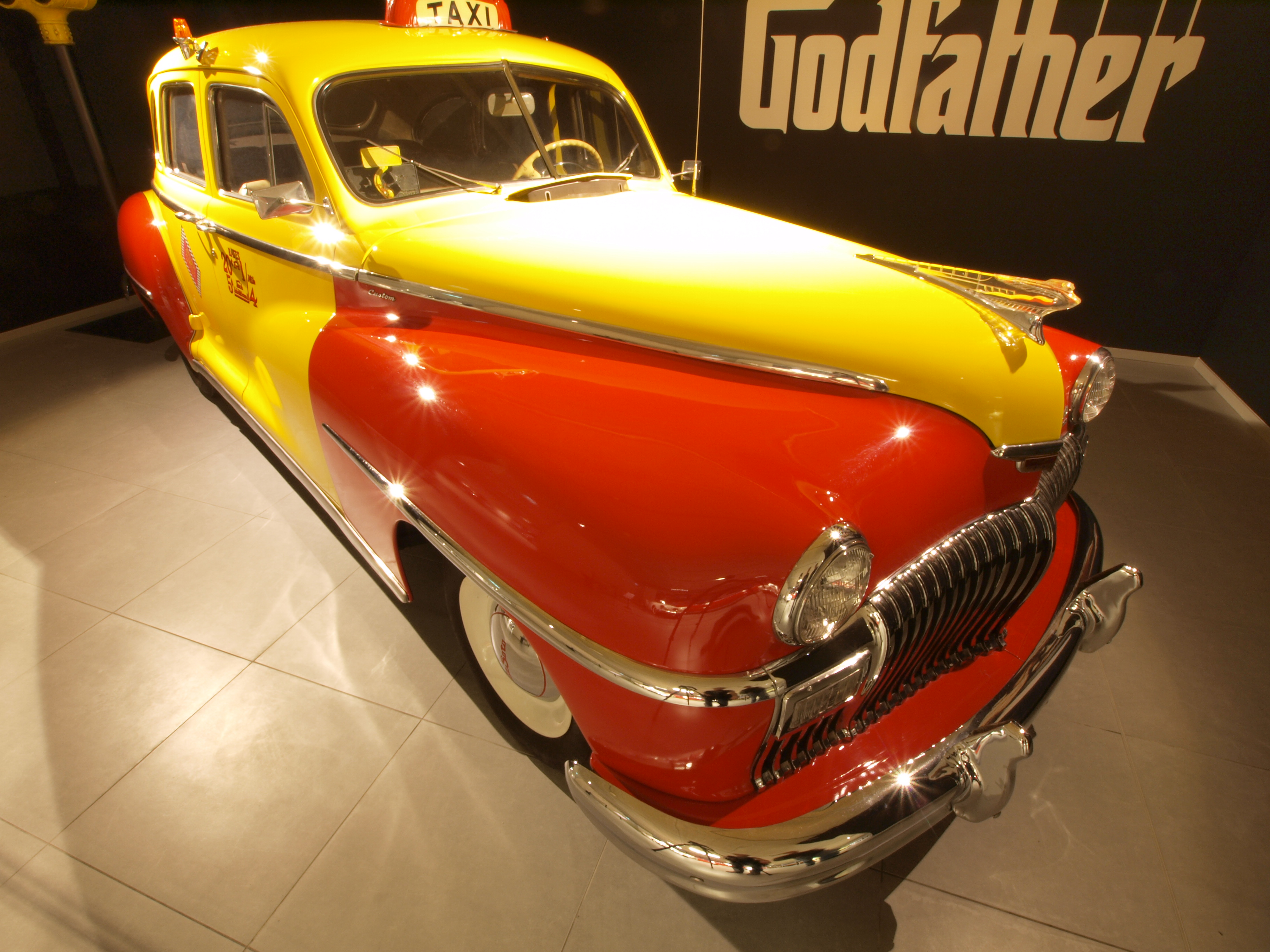 Photographed at the Louwman museum / Louwman Collection, The Netherlands.